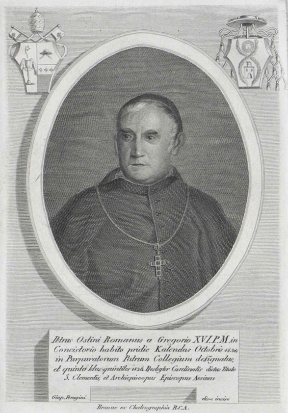 Kardinal Pietro Ostini (1775-1849)